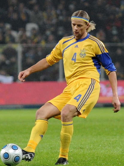 Anatoliy Tymoshchuk